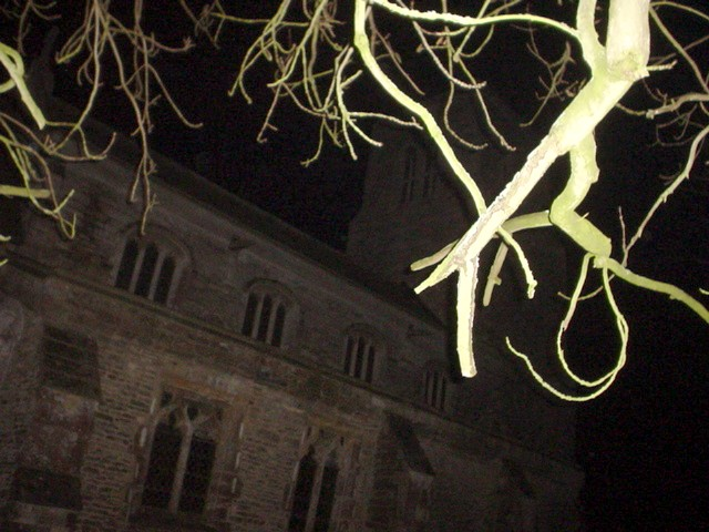 St Botolph's Church, Stow Longa, Huntingdonshire, 15 Dec 2007.